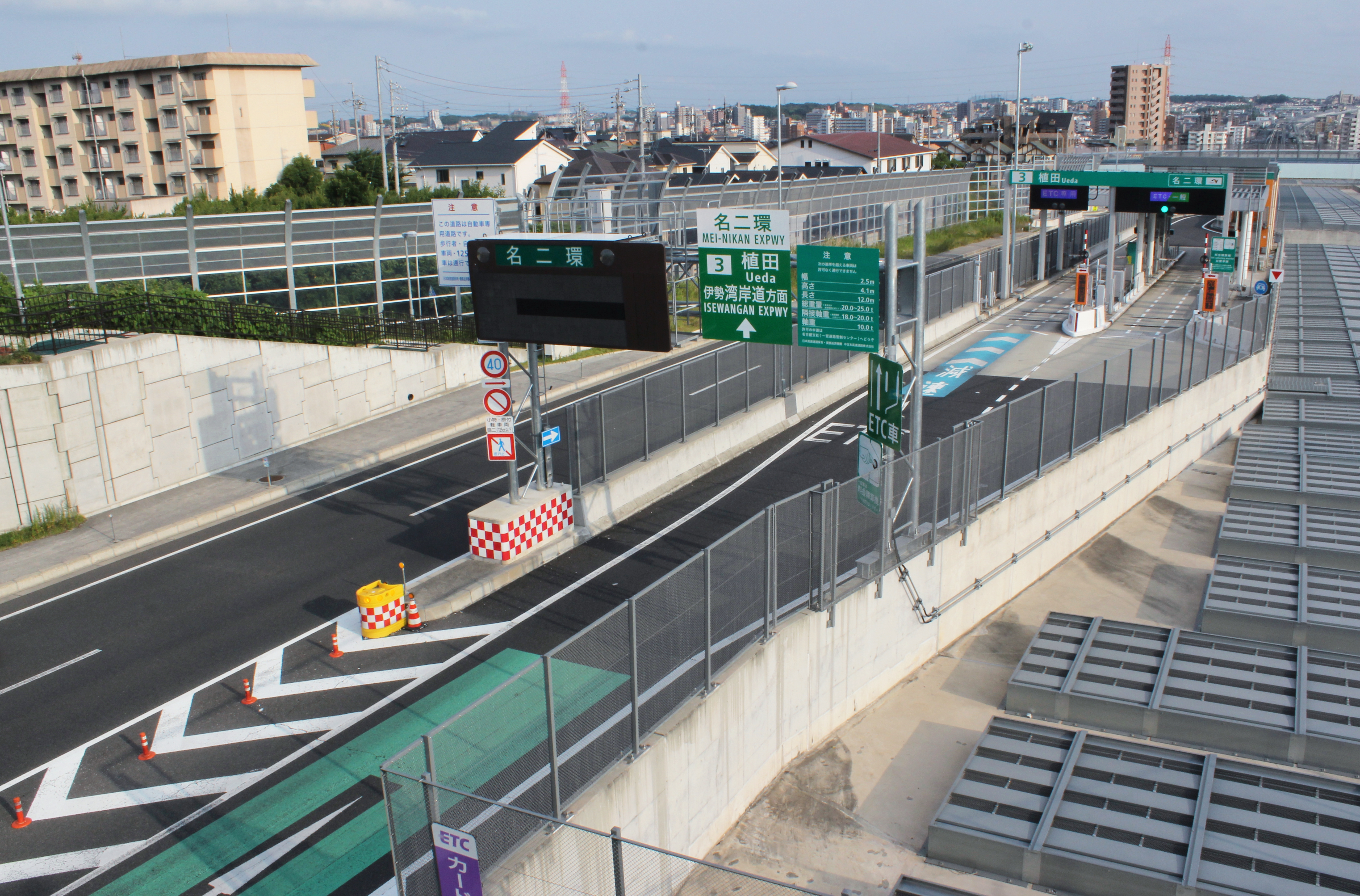 Entrance of Ueda Interchange on the Nagoya-Daini-Kanjo (Meinikan) Expressway